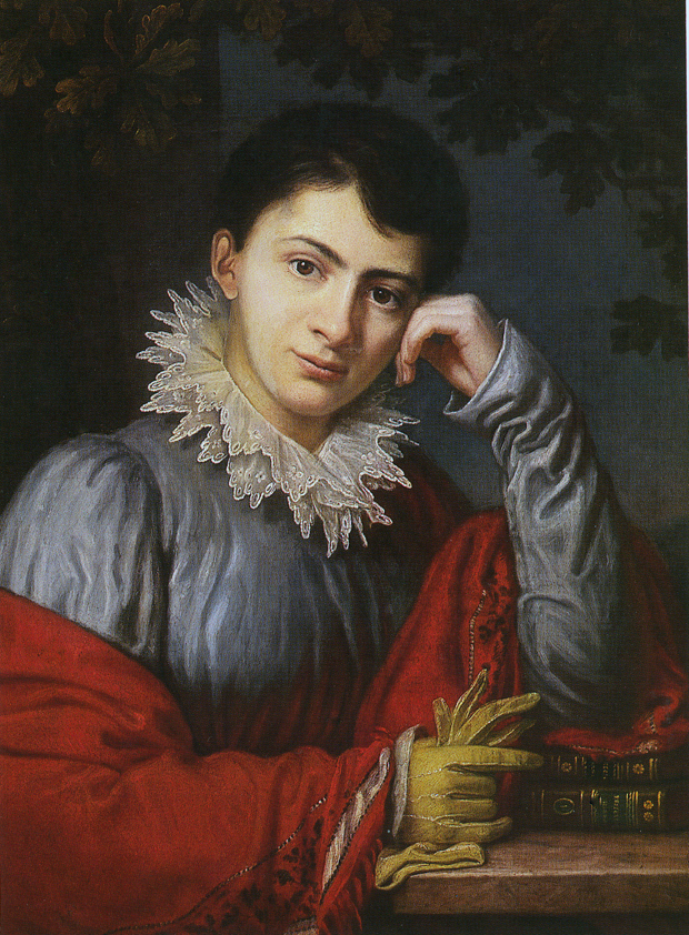 Betty Gleim (1781–1827), pedagogue and writer from Bremen, Germany